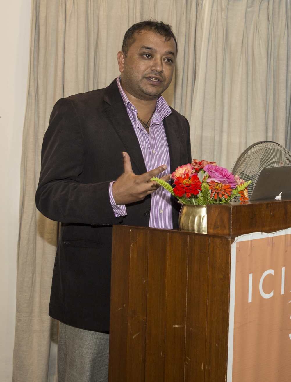 Mr Gagan Thapa, youth leader, member of Constituent Assembly, government of Nepal